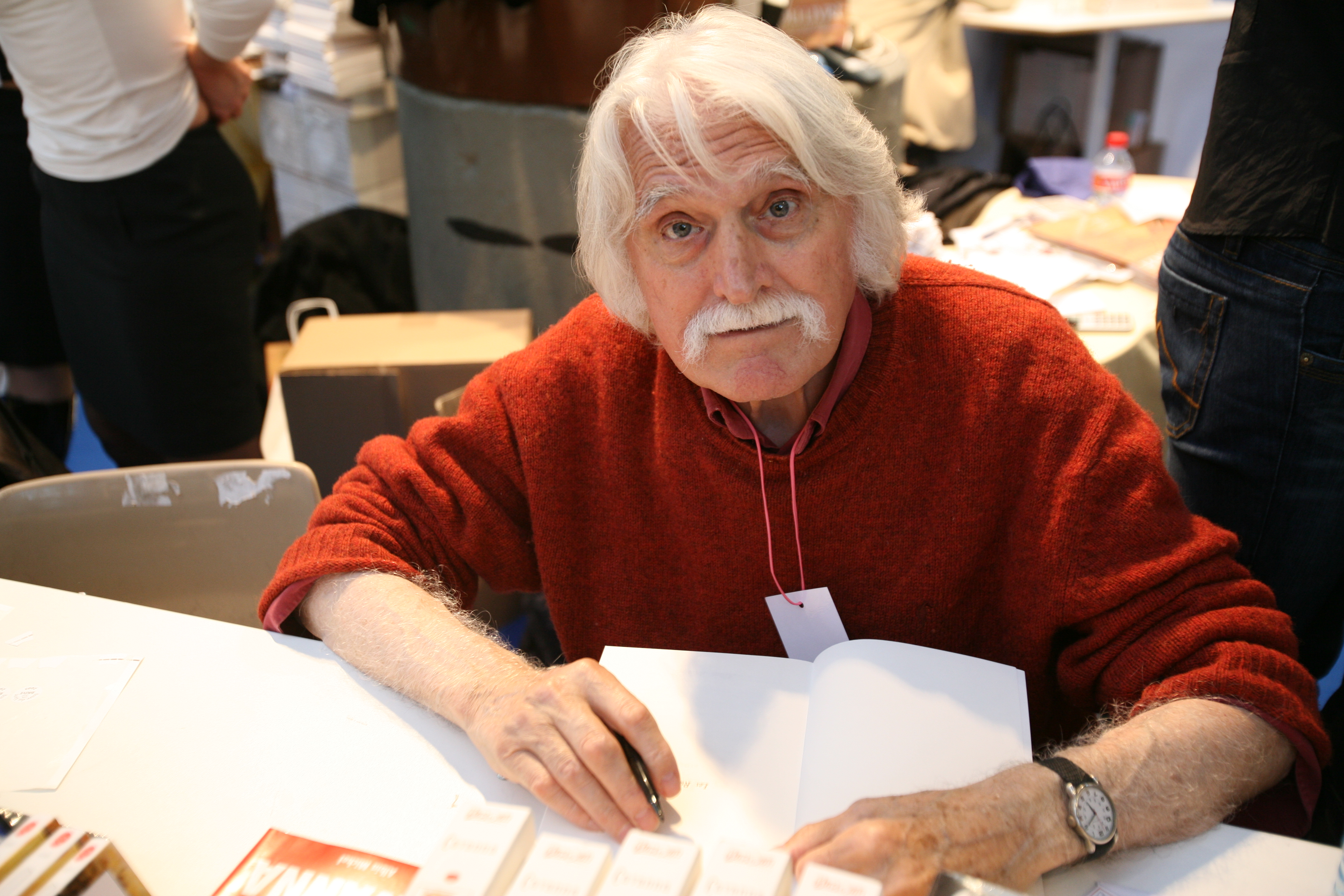 François Cavanna, one of the founders of Charlie Hebdo, at the Brive-la-Gaillarde book fair, 6 November 2005